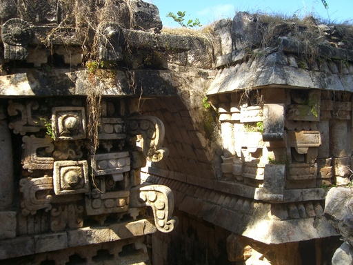 Vaulted passage with sculptured ornaments in the Palace of Labna, Yucatán